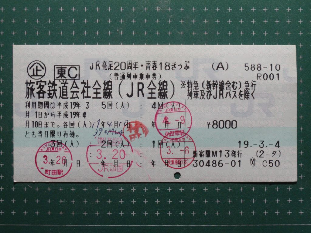 Japanese Train Ticket (Youth-18 Ticket) on JR 20th anniversary